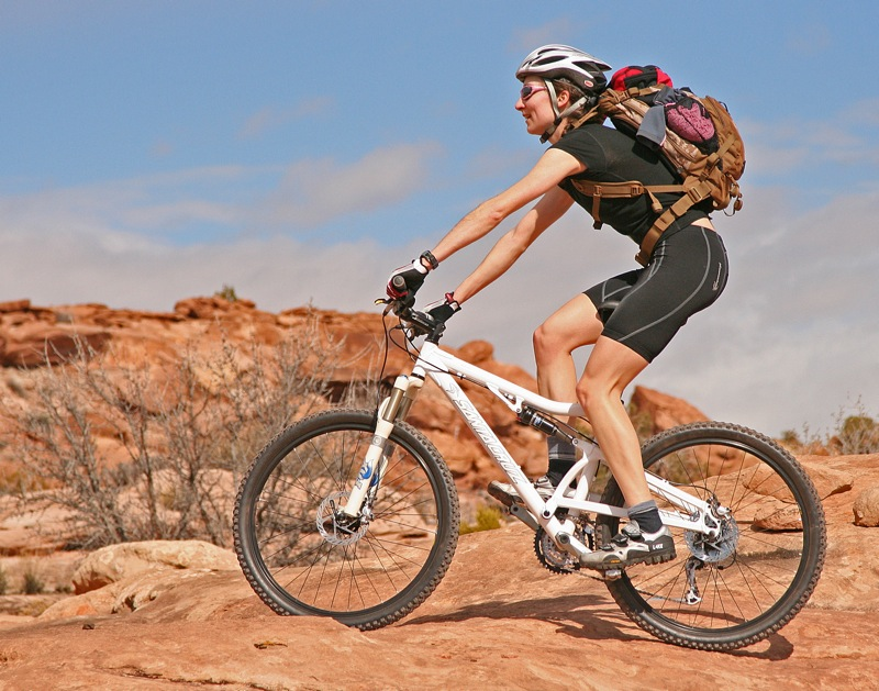 Moab, Utah, bicycle riding